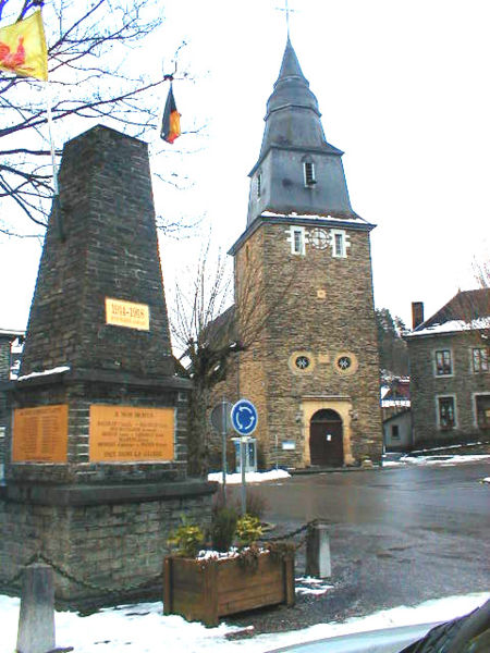 Church of AlleAlle, Vresse-sur-Semois, Namur, Belgium